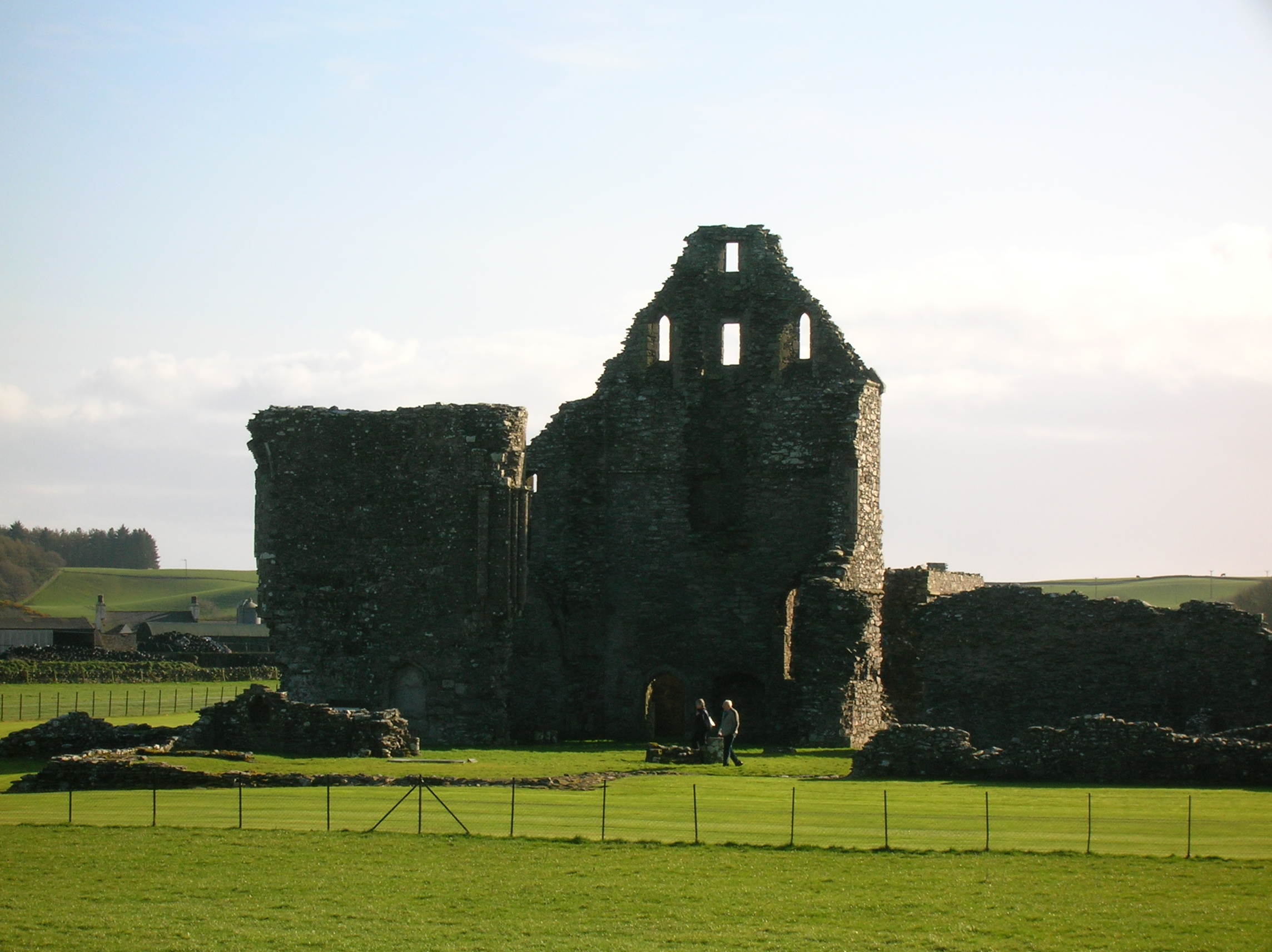 Glen Luce Abbey, Glenluce, Dumfries and Galloway, Scotland